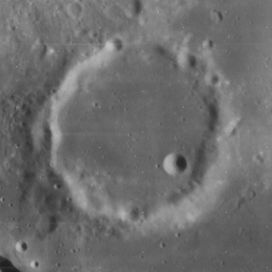 Cook crater, on the moon.